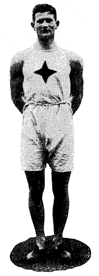 Swedish olympic Bertil Uggla